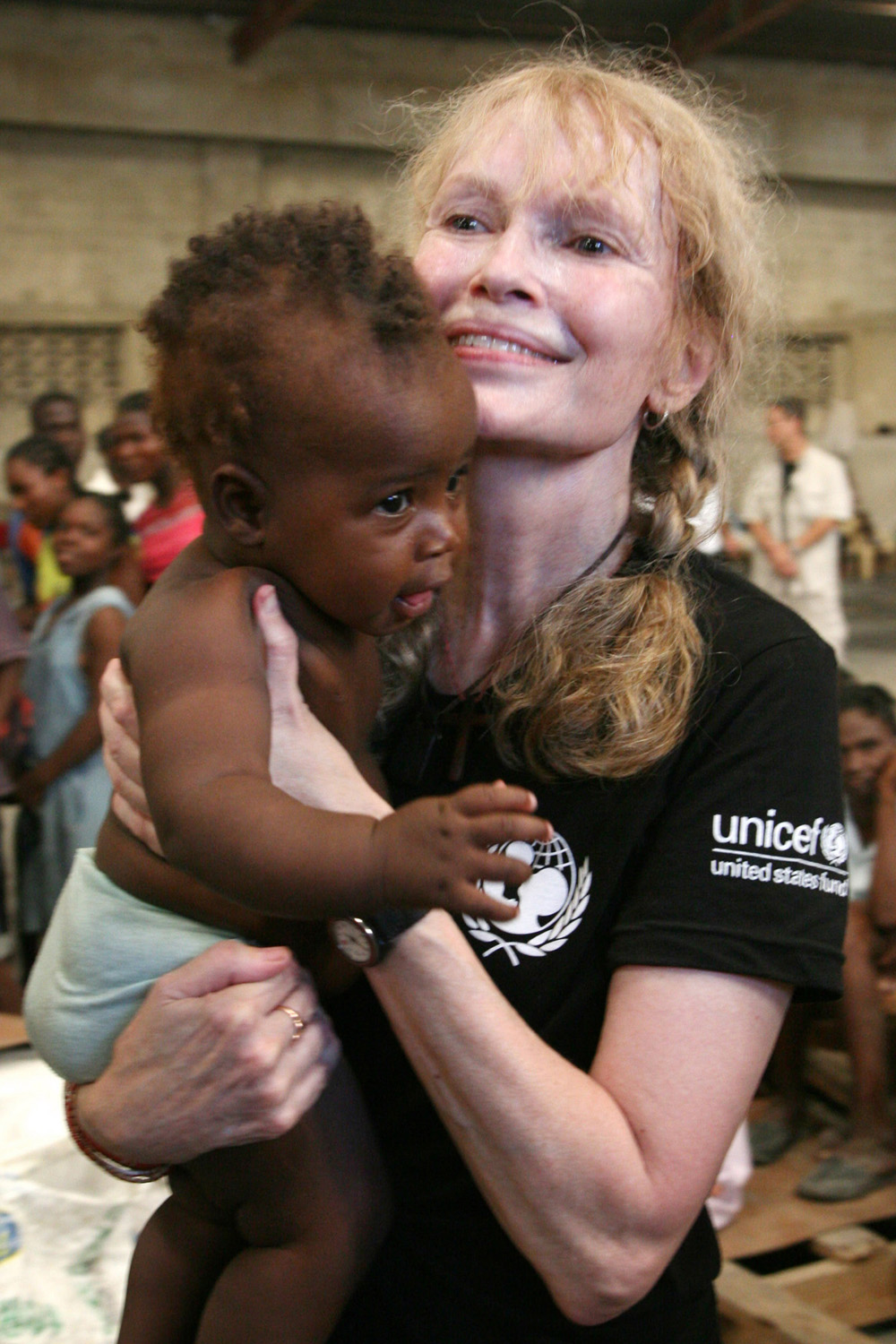 Haiti, September 2008: UNICEF Goodwill Ambassador Mia Farrow holds a baby at a warehouse in the city of Gonaives. The warehouse is sheltering people displaced by successive hurricanes and tropical storms that began on 16 August. An estimated 620,000 Haitians, including 279,000 children, are in need of humanitarian assistance. UNICEF assistance includes hygiene kits, water purification tablets, oral rehydration salts, blankets, shelters, school supplies and other essential supplies. Credit: Roger LeMoyne for UNICEF